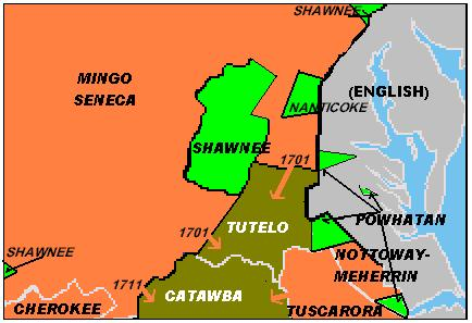 Estimated linguistic divisions ca. AD 1700. Powhatan, Tutelo and Nottoway-Meherrin were tributary to English; Shawnees tributary to Seneca at this time. NOTE: Several other Shawnee locations in 1700 were off-map, in PA, SC, KY and IL.